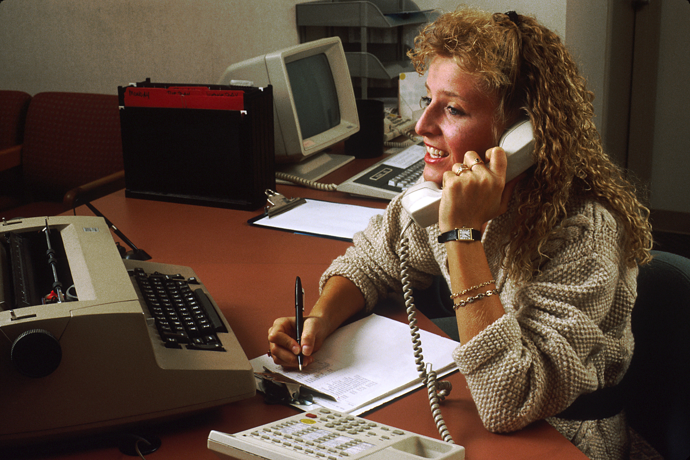 Title Receptionist Description A female Caucasian receptionist speaks on the phone at her desk. She is sitting in front of a typewriter. Topics/Categories People -- Adult People -- Health Professional Type Color, Photo Source National Cancer Institute